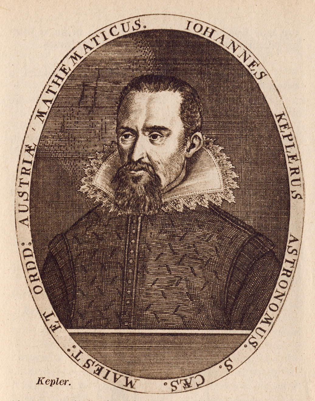 Portrait of Johannes Kepler.